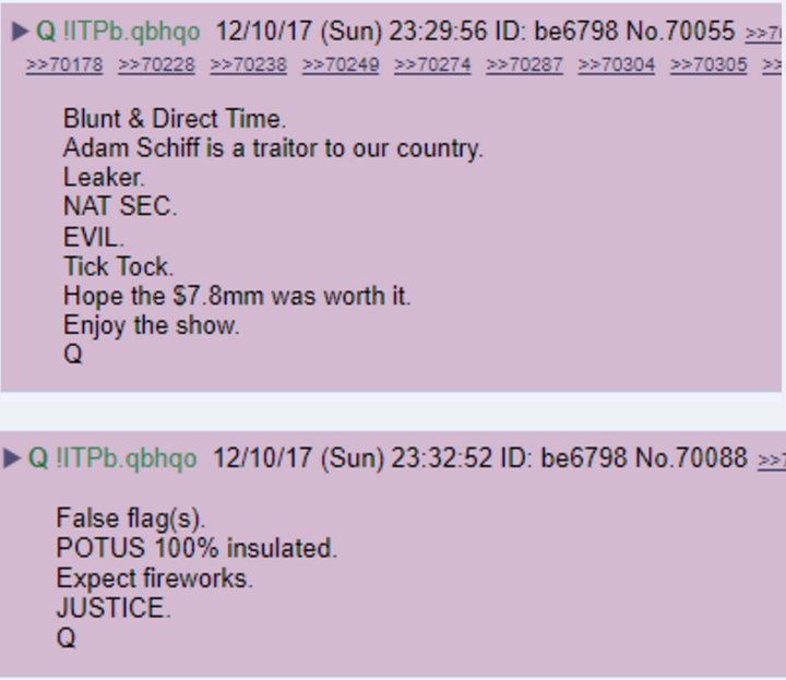 QAnon alleged clues about the NYC bombing